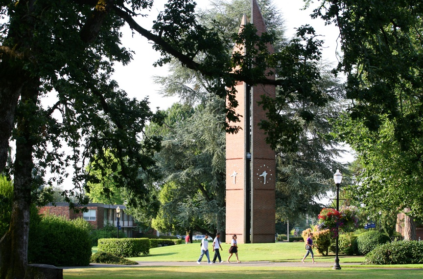 Centennial Tower on George Fox University campus. Newberg, Oregon, USA